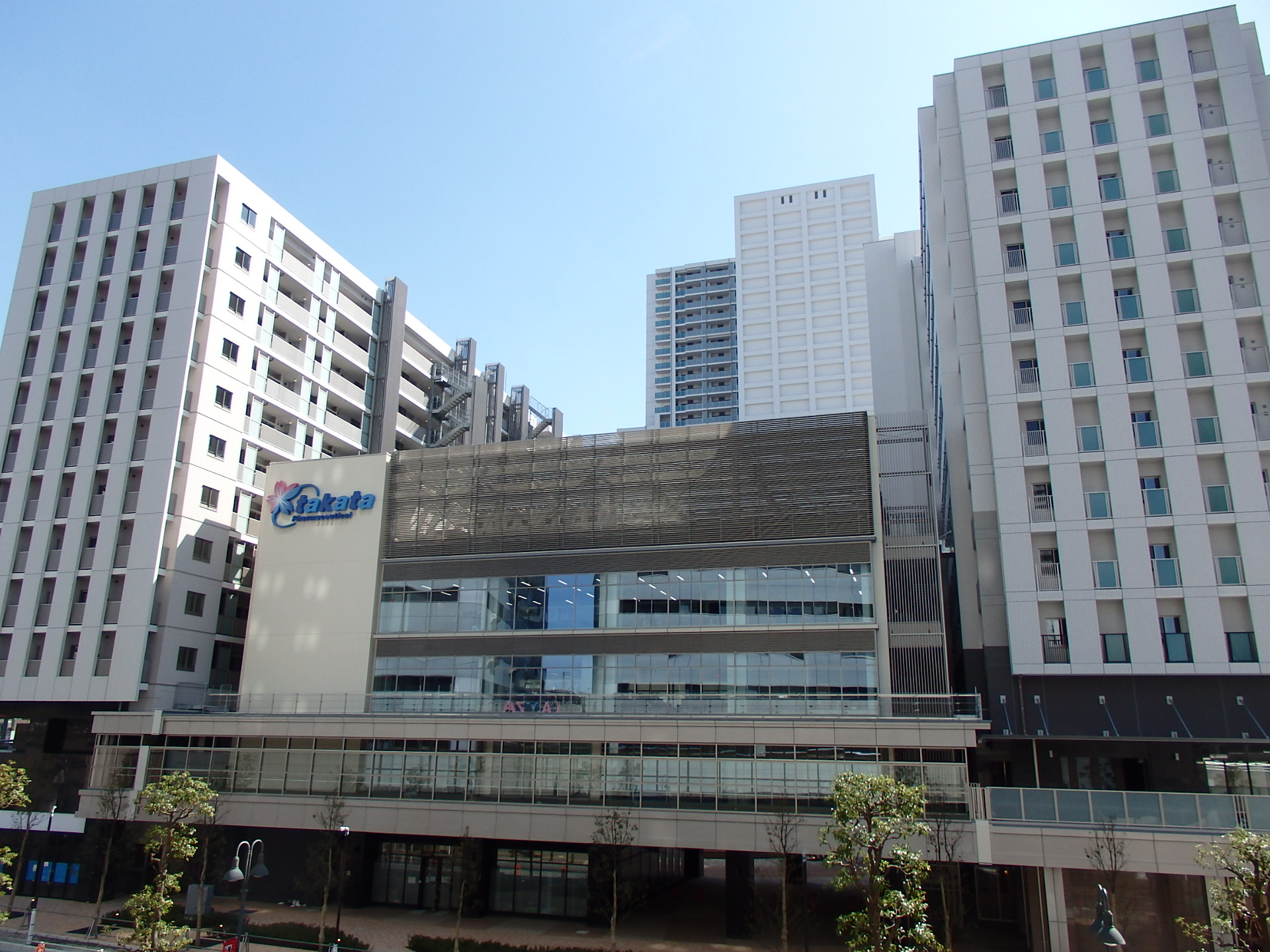 Musashi-Urawa Sky & Garden